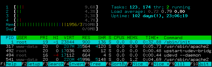 Htop easter egg when reaching 100 days of uptime